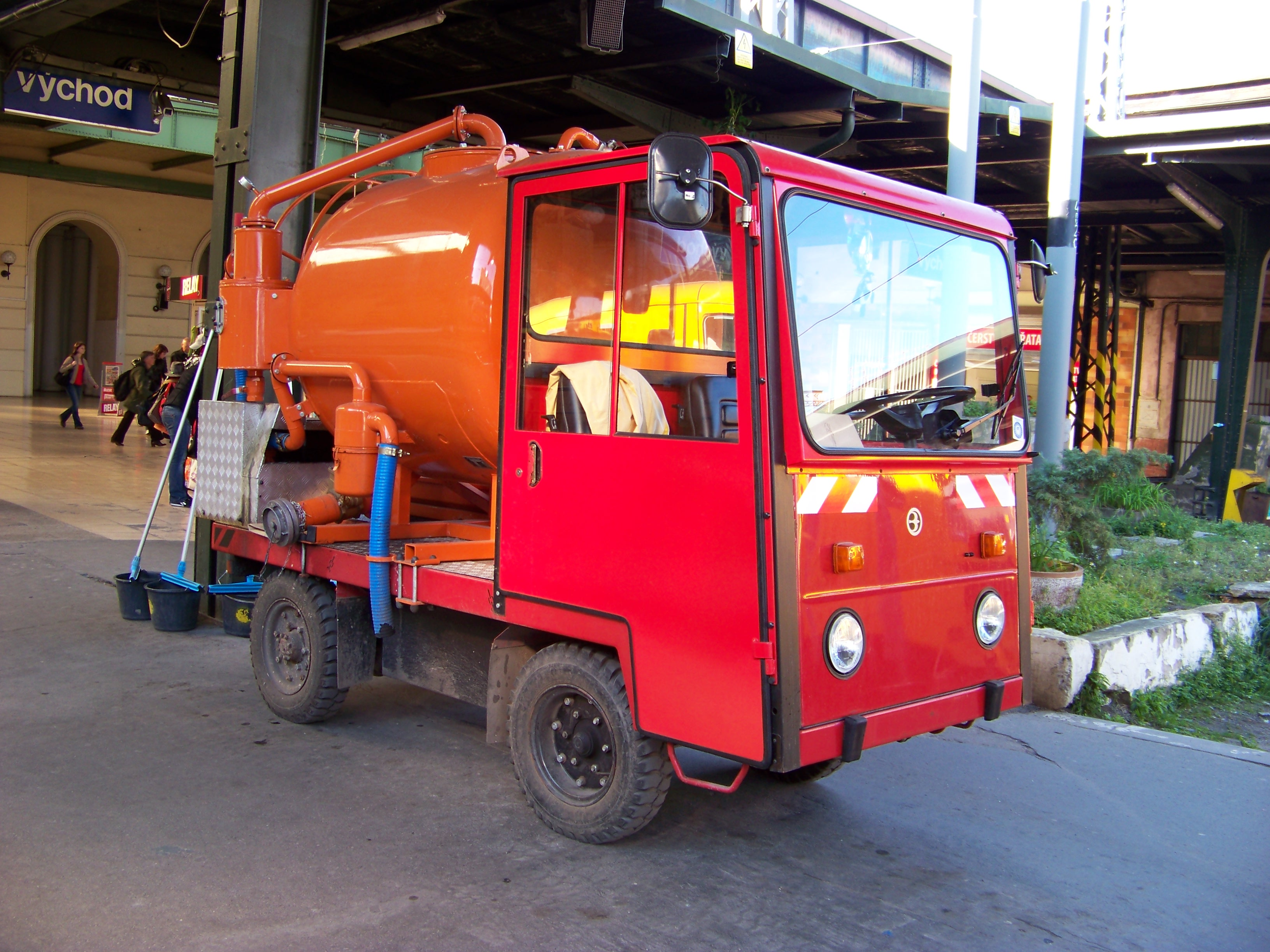 Praha Masarykovo nádraží train station, Prague, the Czech Republic. A water tank battery cart.